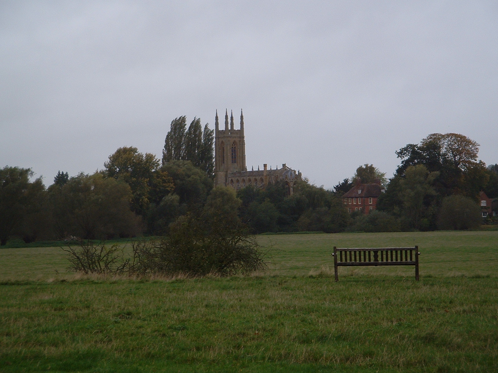 Hampton Lucy from Charlecote Park, Warwickshire, with the Church of St. Peter. Taken by Necrothesp, 24 October 2005.